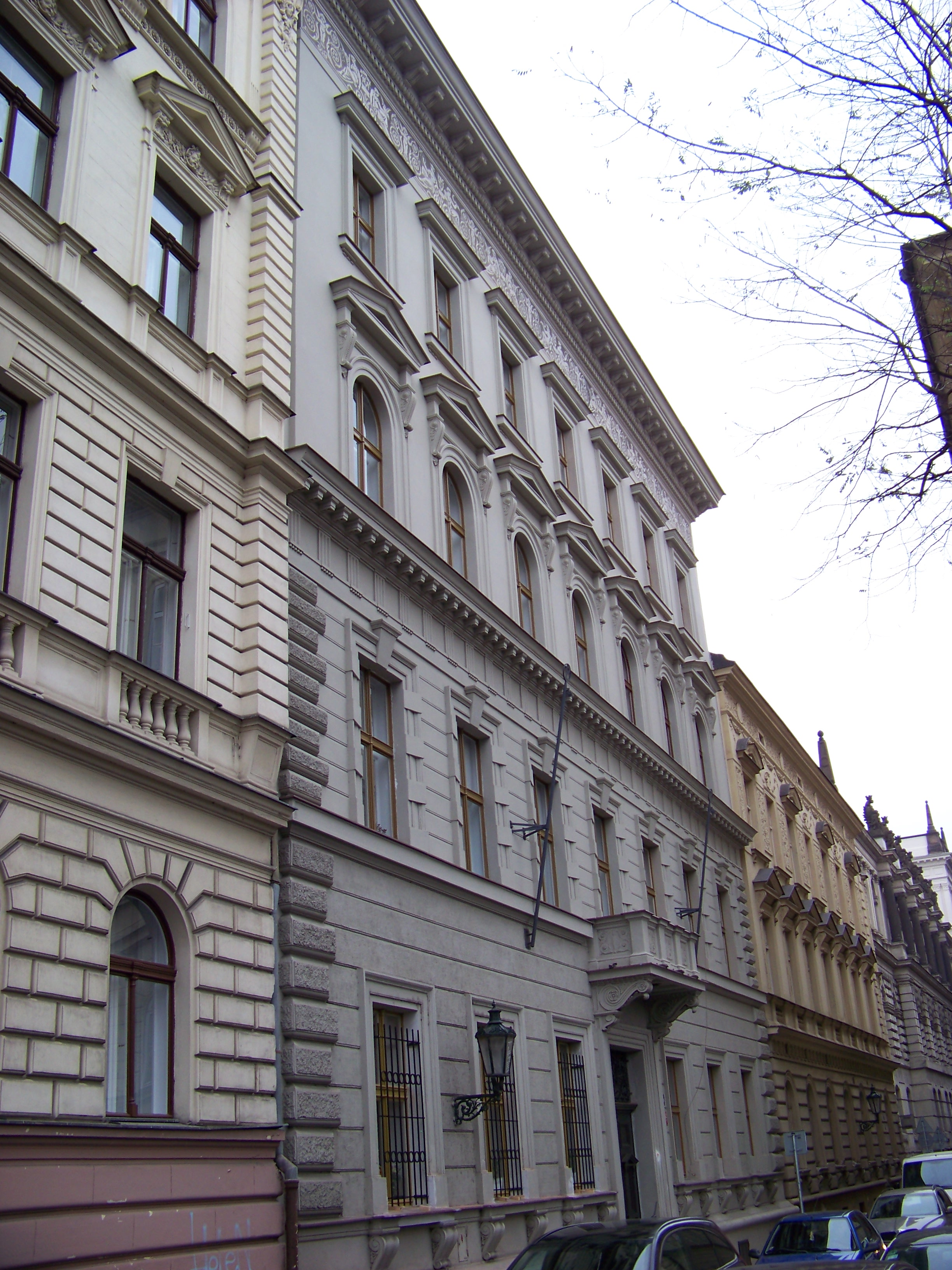 Prague-Old Town, Czech Republic. Divadelní 1032/14.